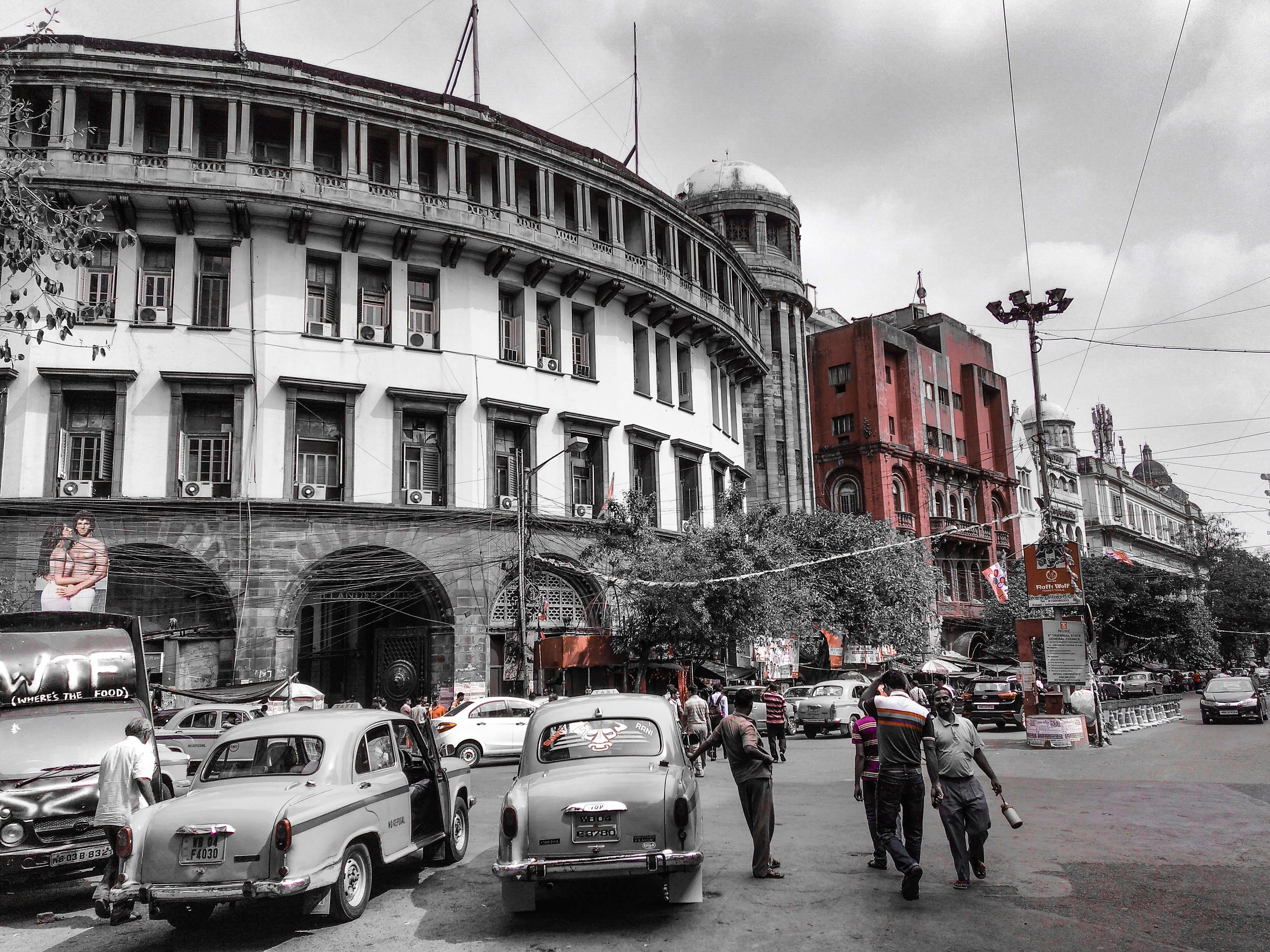 Gillander House, 8, NS Rd, Murgighata, BBD Bagh, Kolkata, West Bengal 700001